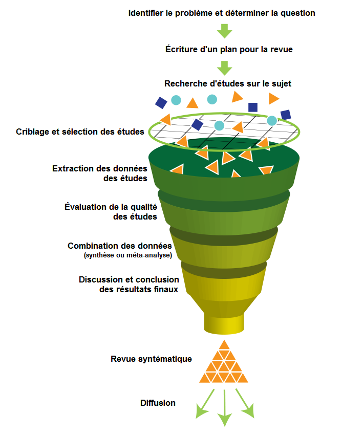 This diagram illustrates in a visual way and in plain language what review authors actually do in the process of undertaking a systematic review. English version: File:Systematic reviews - what authors do.png.